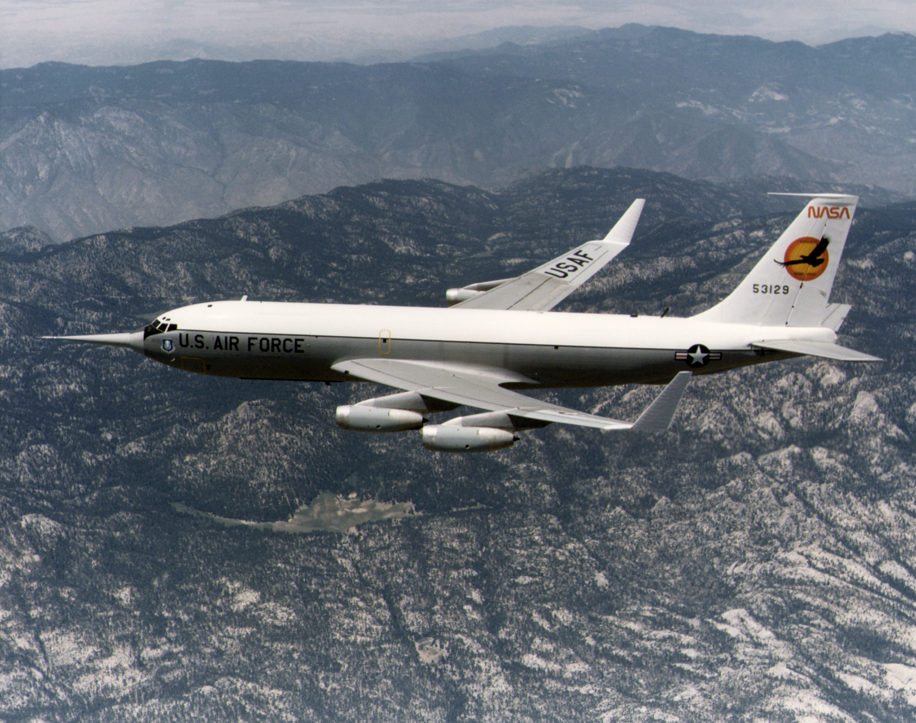 Title: KC-135A in flight - winglet study The KC-135 with the winglets in flight over the San Gabriel mountains, south of Edwards AFB. While wind tunnel tests suggested that winglets - developed by NASA Langley's Richard Whitcomb - would significantly reduce drag, flight research proved their usefulness. Winglets were installed on an Air Force KC-135 and research flights were made in 1979 and 1980. These showed drag in flight was reduced by as much as 7 percent. Winglets soon appeared on production aircraft, although these were smaller than those mounted on the KC-135.